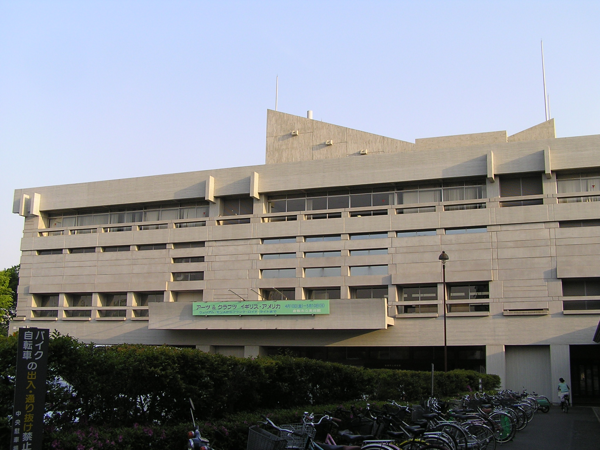 Municipal museum where old Kurashiki city office was recycled.